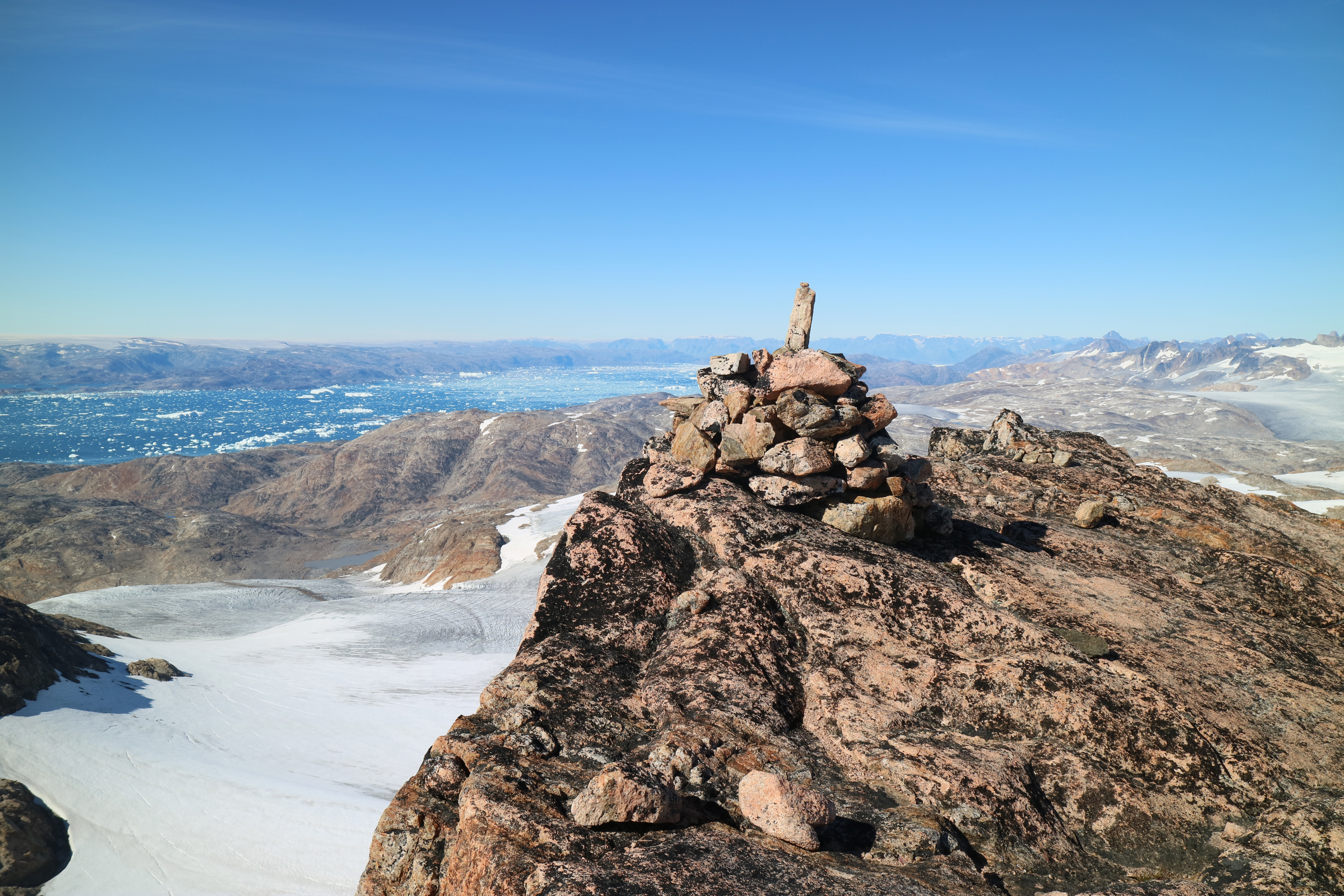 Mittivakkat summit with inuksuk